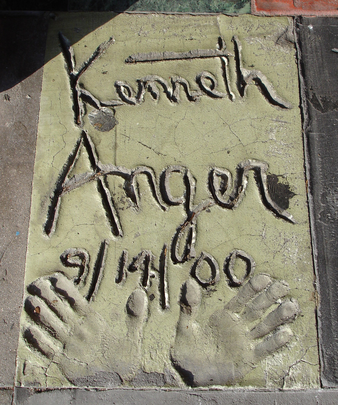 Signature and handprints of Kenneth Anger on front of the Vista Theatre, 4473 Sunset Drive, Los Angeles.